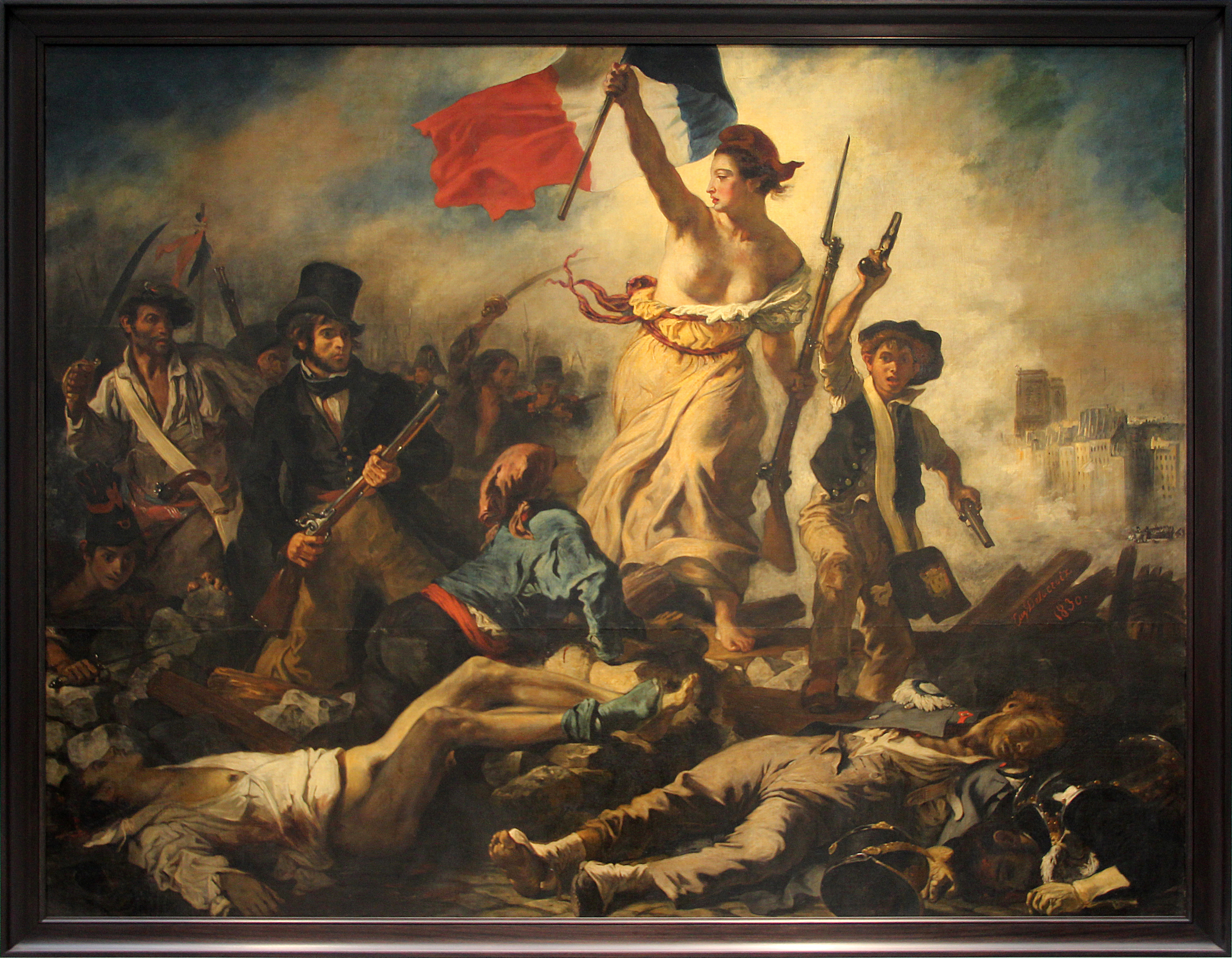 Romantic history painting. Commemorates the French Revolution of 1830 (July Revolution) on 28 July 1830.